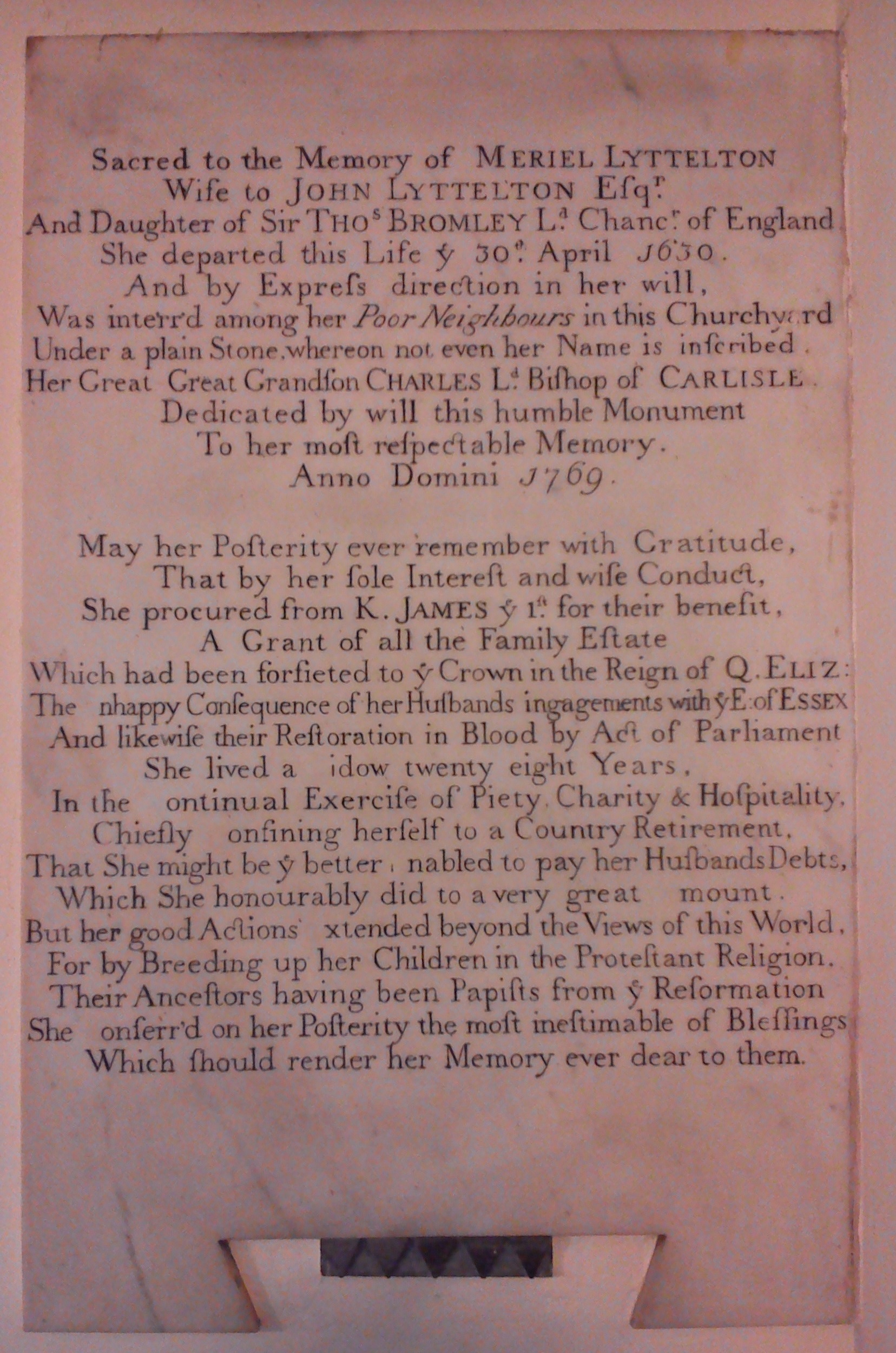 Hagley, St John the Baptist - interior, memorial from 1769 to Meriel Lyttelton (née Bromley, died 1630). She was a daughter of Sir Thomas Bromley (1530–1587), the Solicitor General and Lord Chancellor of England, and married Sir John Lyttelton (1561–1601), a Member of Parliament for Worcestershire during the reign of Queen Elizabeth I.